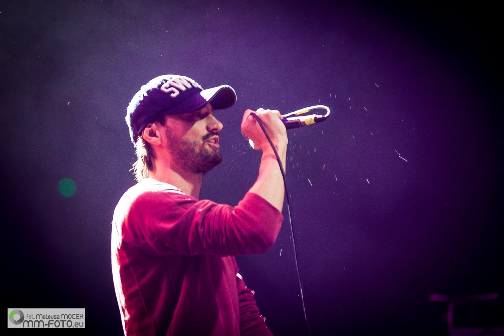 Polish rapper Deep, Luxfest3, Hala Arena, Poznan